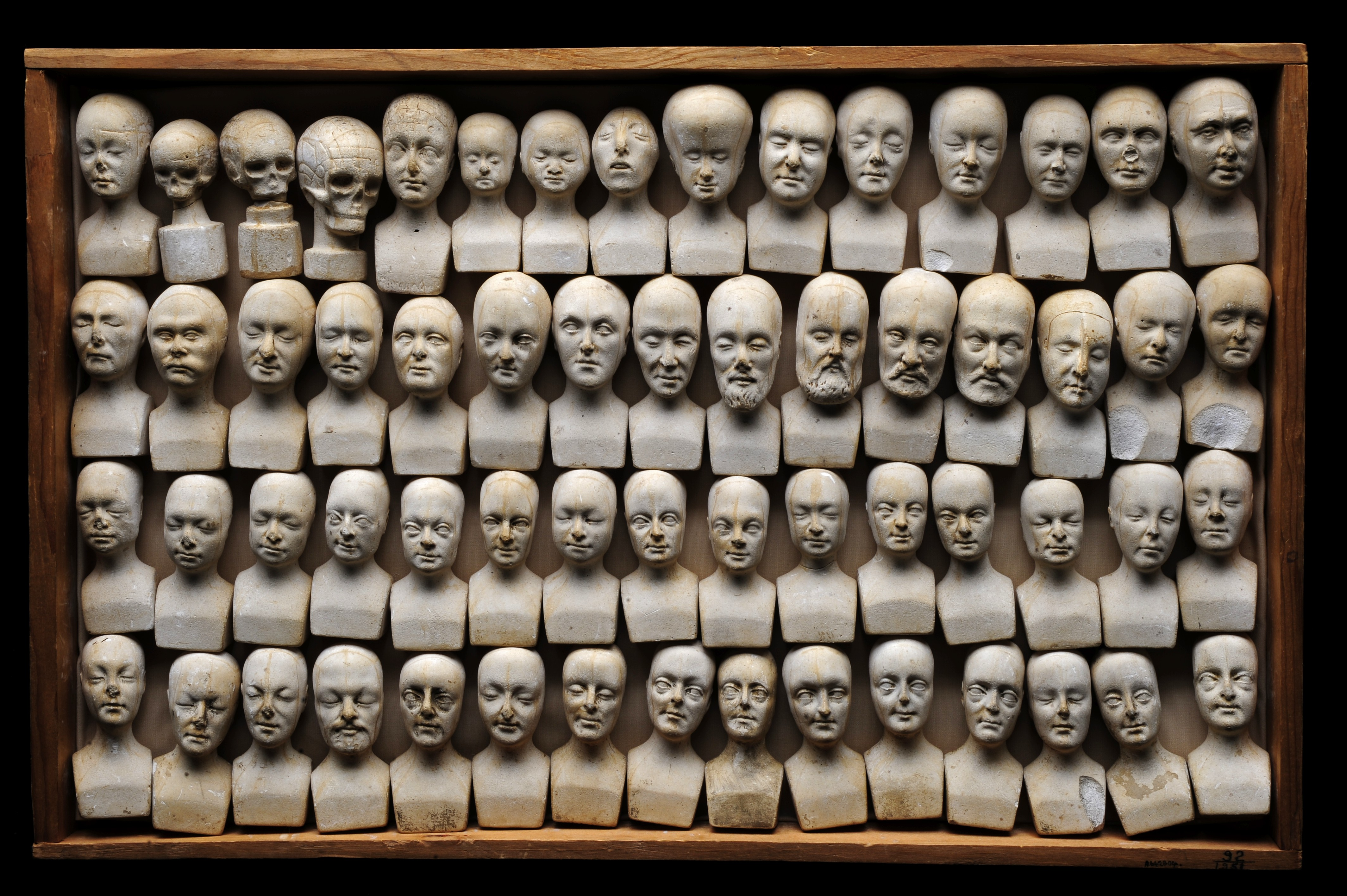 Wooden case containing 60 small phrenological heads, by William Bally, Manchester or Dublin, 1831. Black background. Wellcome Images